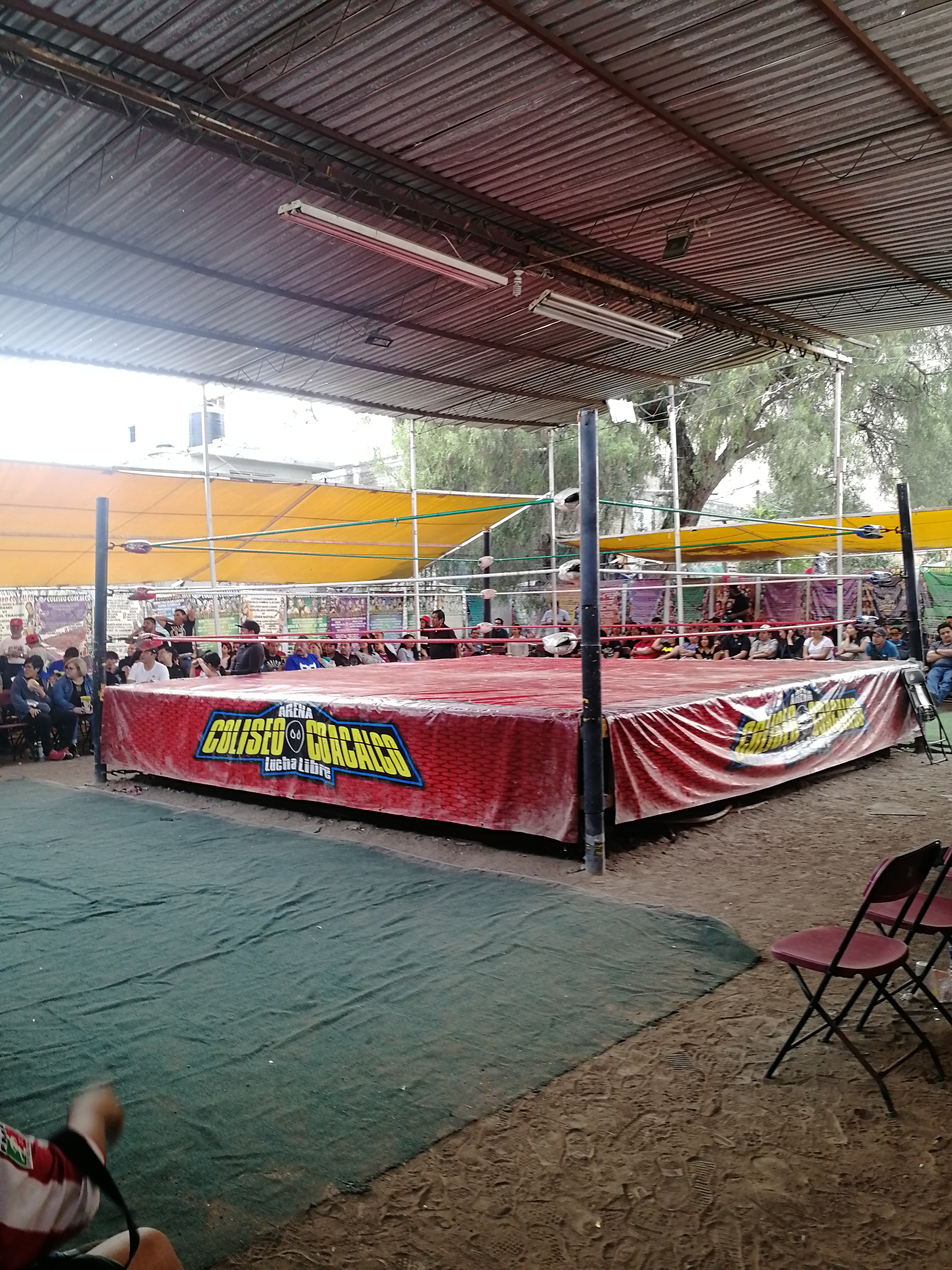 Arena Coliseo Coacalco